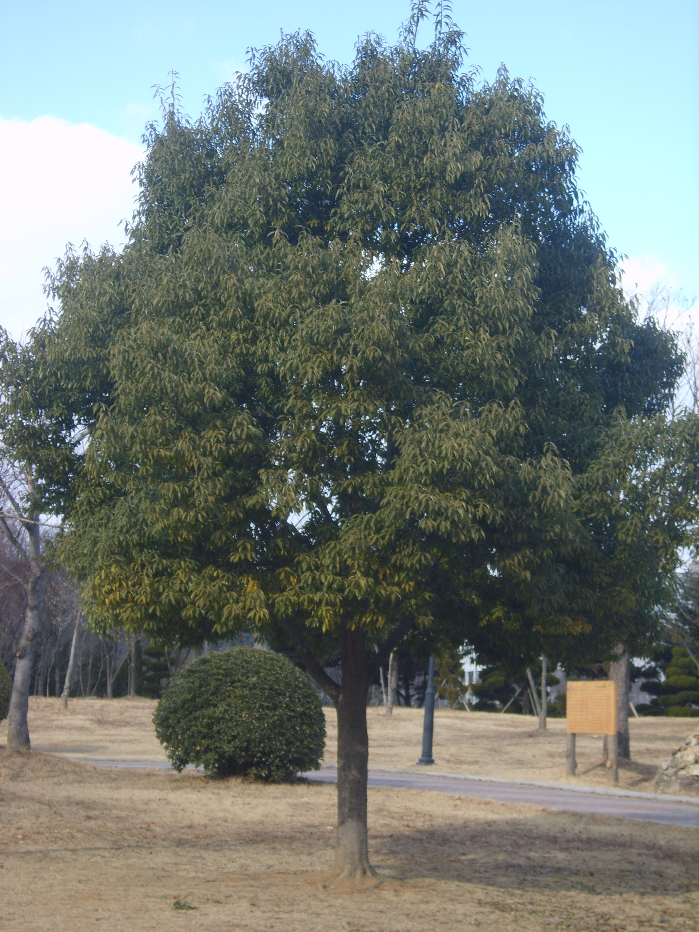 Quercus myrsinifolia. Gwangju Korea. 광주 중외공원에서 찍음